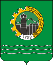 Beloretsk (Bashkortostan), coat of arms (1977)